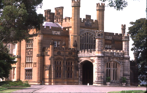 Government House, Bennelong Point, Sydney, photo by Sardaka 10:47, 8 August 2007 (UTC)